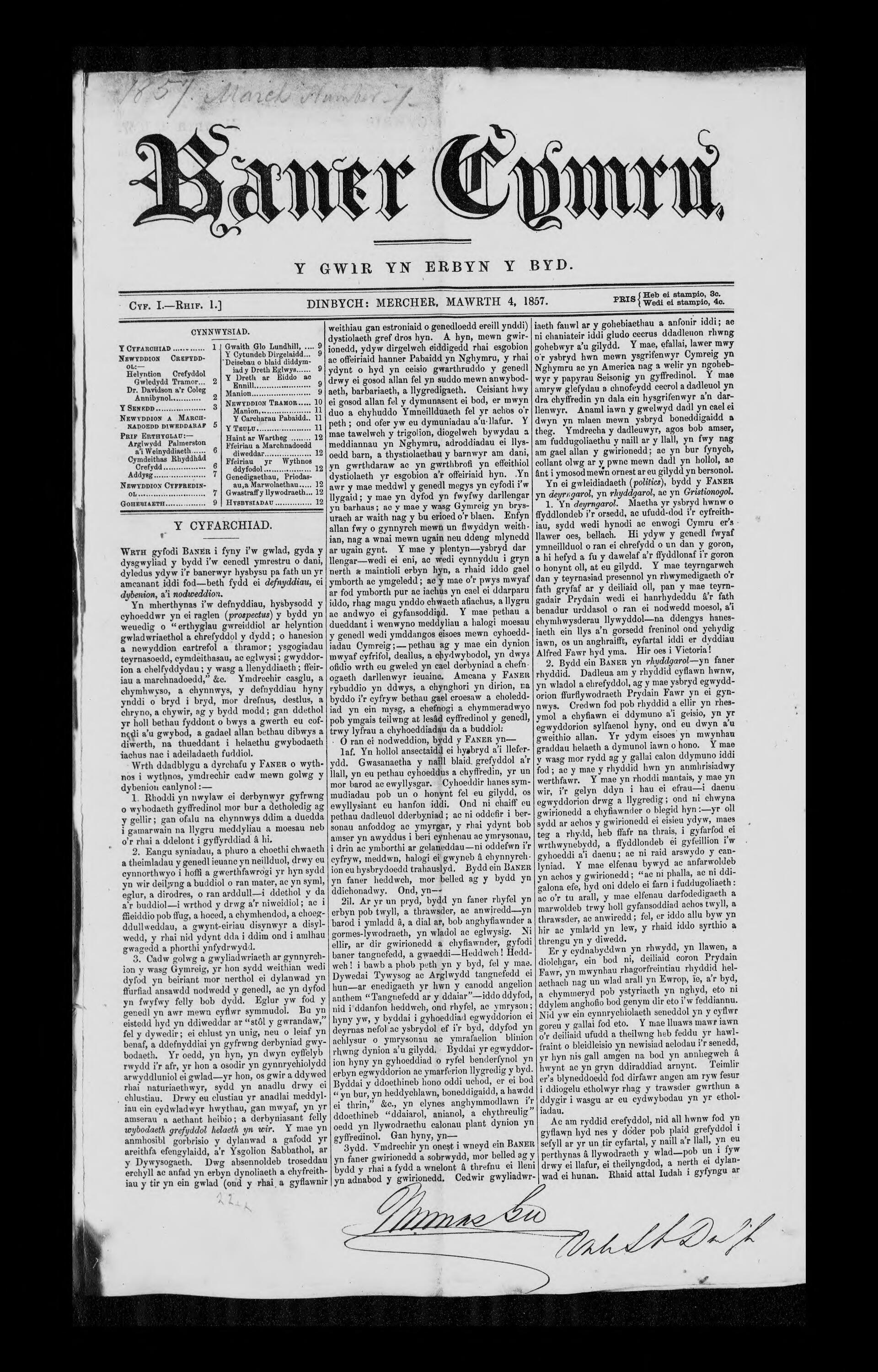 Front page of the earliest surviving copy of the Welsh newspaper Baner ac Amserau CymruCymraeg: Tudalen flaen y copi cynharaf sydd yn bodoli o'r papur newydd Cymraeg Baner ac Amserau Cymru